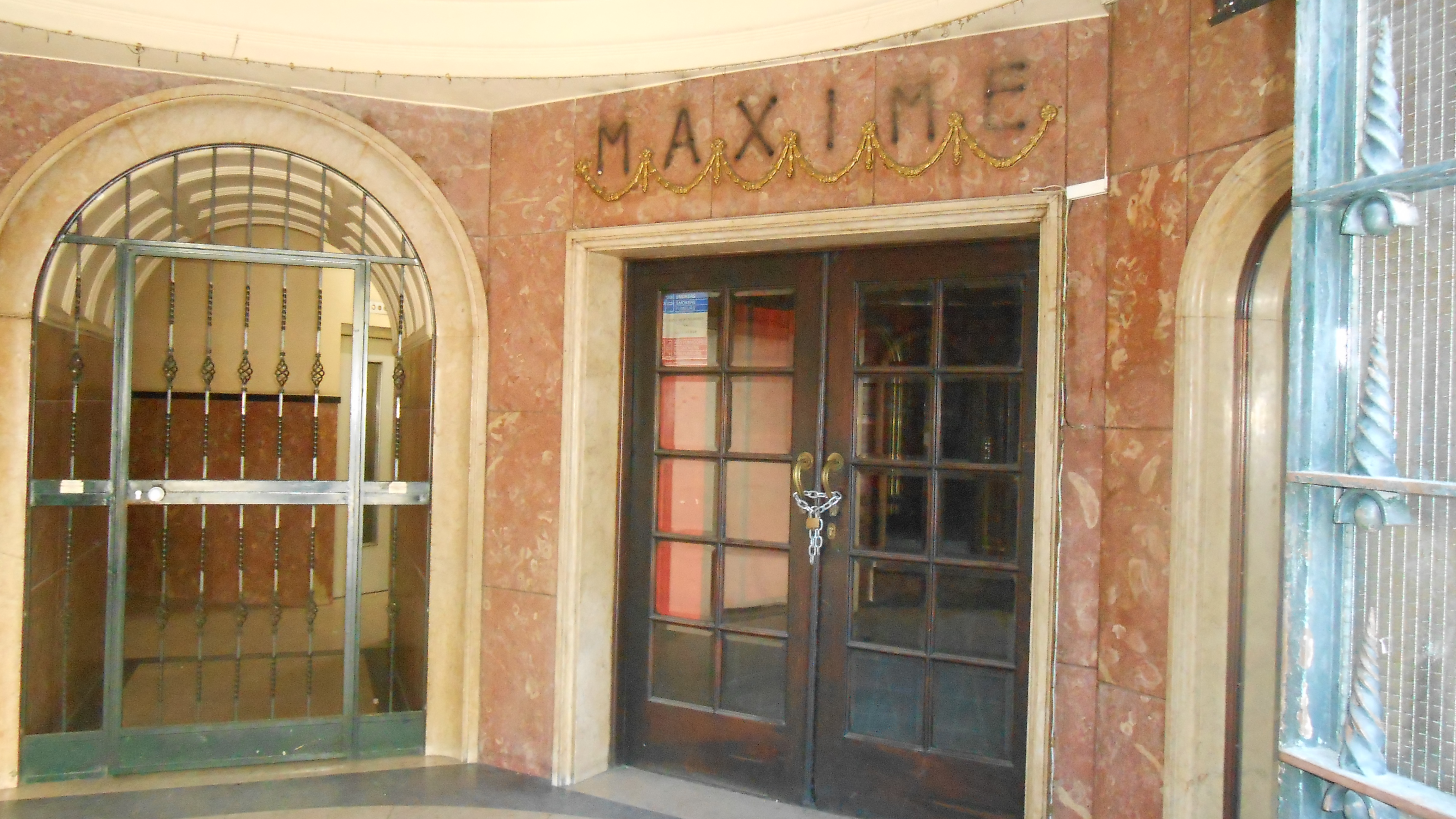 Entrance hall to the famous Cabaret Maxime in Lisbon, remaining closed as seen in march 2014.